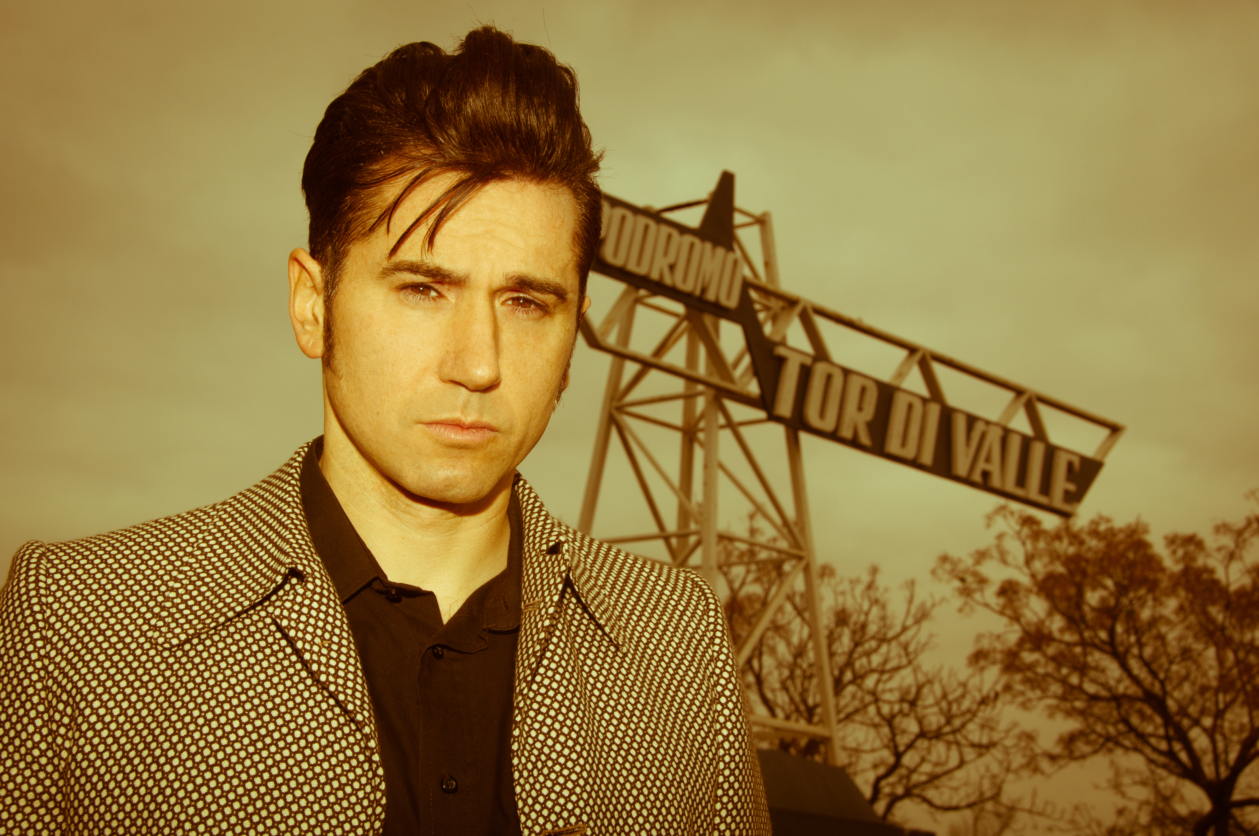 Simone Salvatori in Tempi andati, Spiritual Front Booklet, 2013